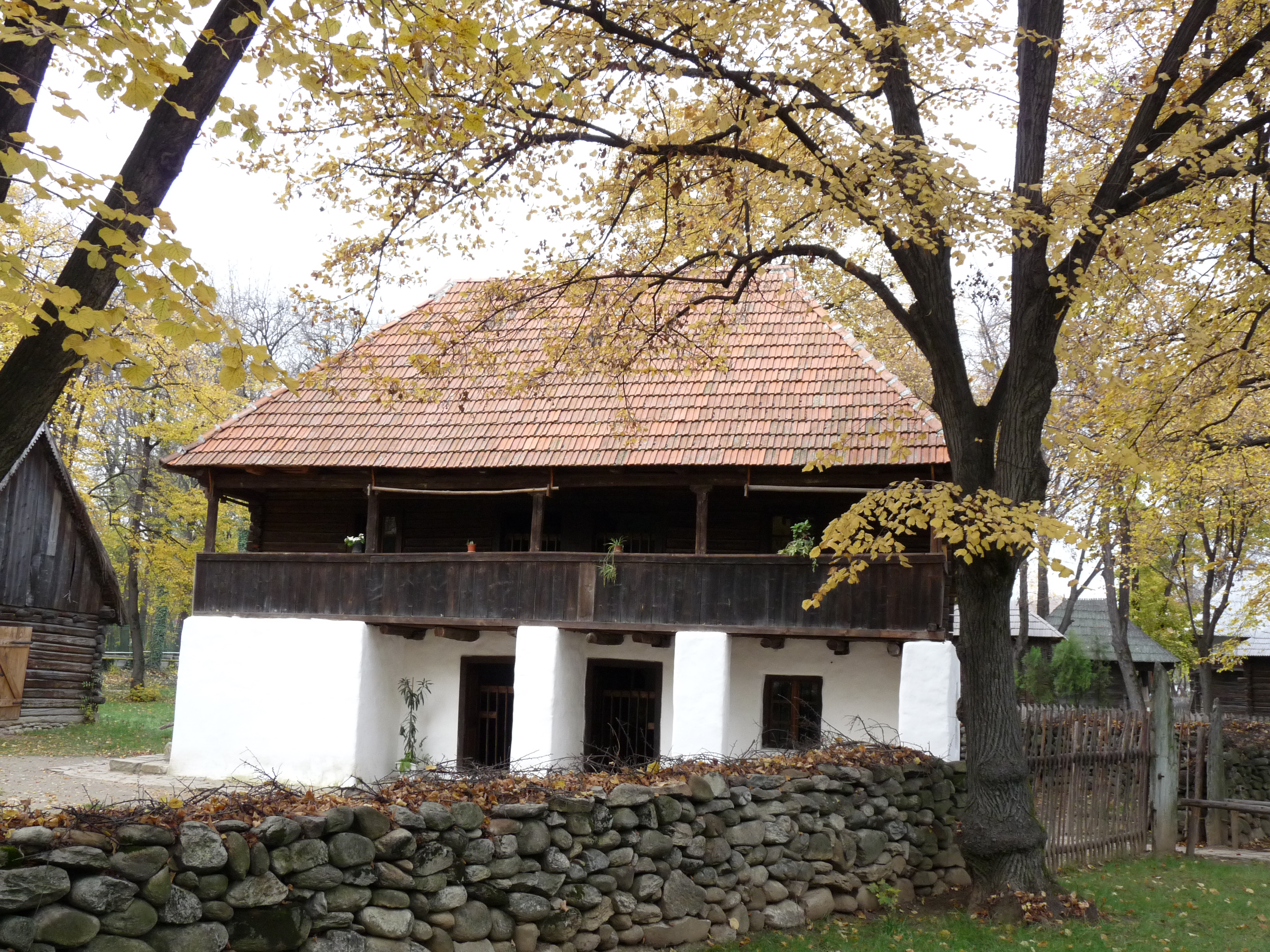 20th century household from Clopotiva, Hunedoara County, exhibited at the Village Museum in Bucharest.